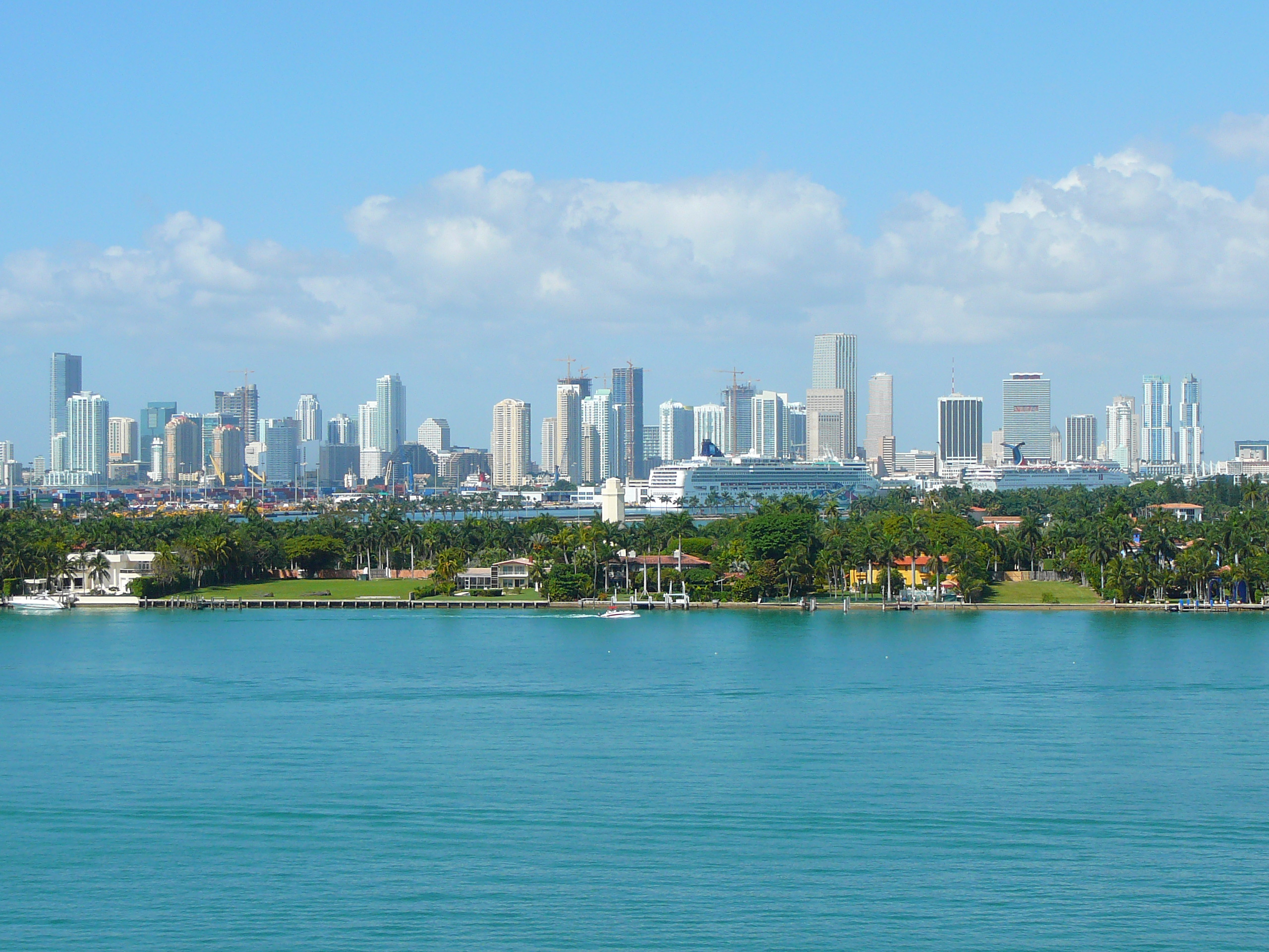 Digital photo taken by Marc Averette. The skyline of Downtown Miami as seen from South Beach 3/28/2008